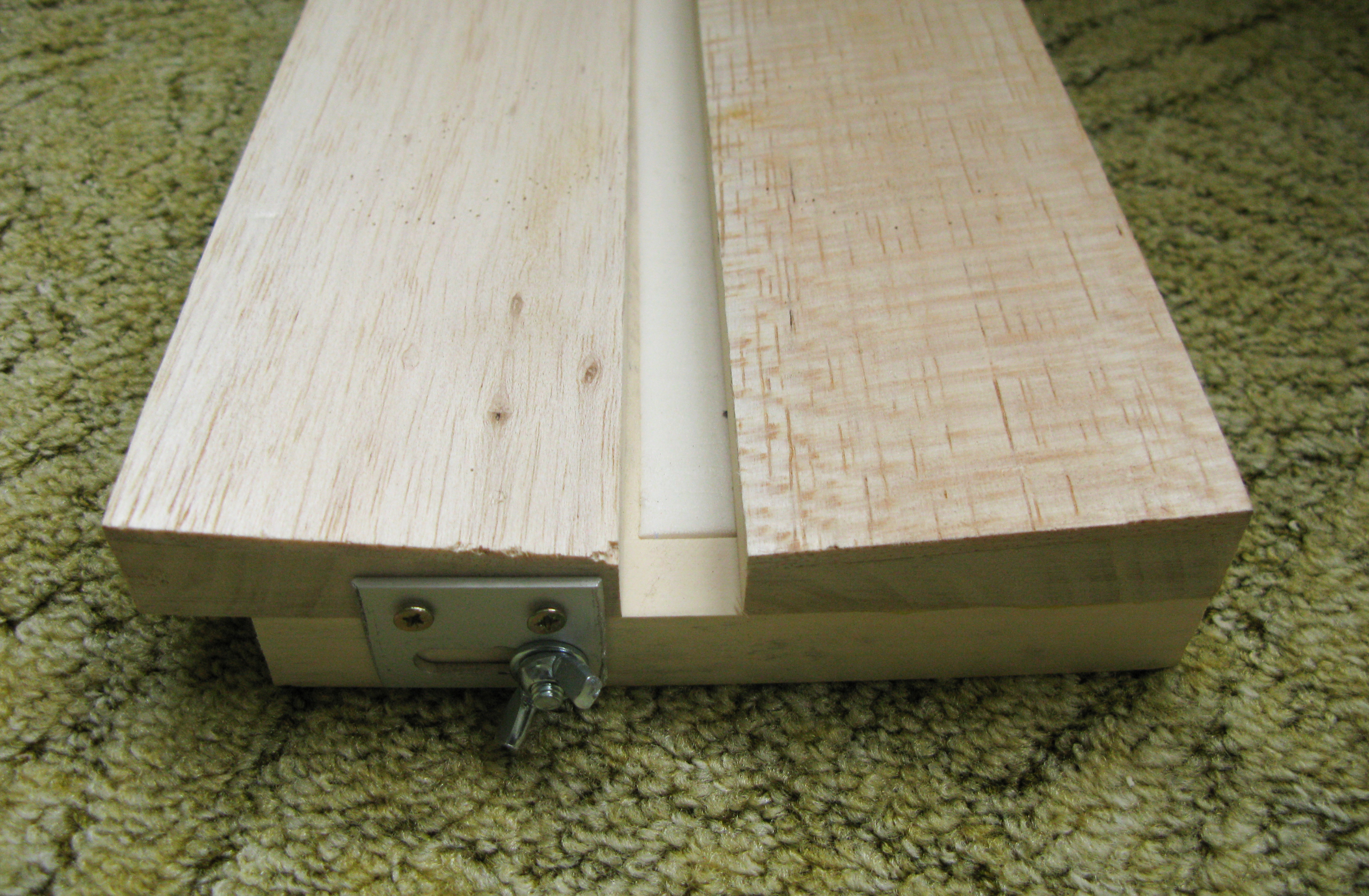 Setting board